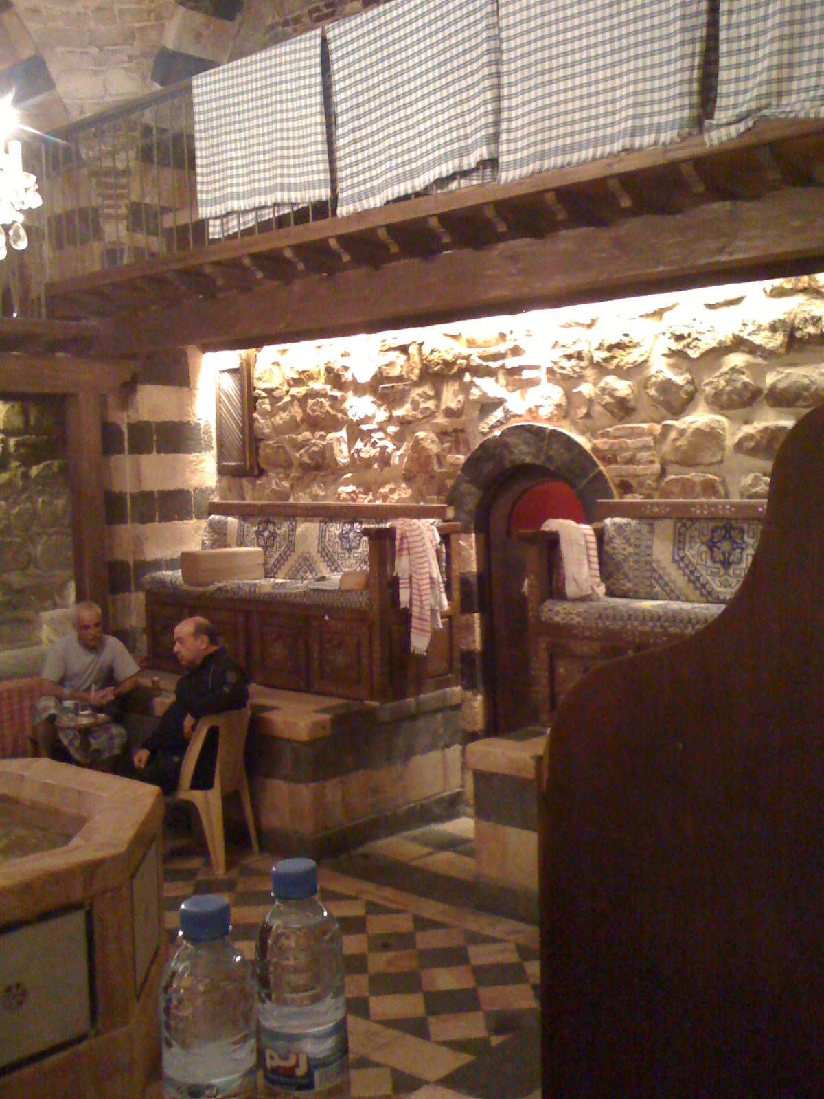 pools market in Damascus